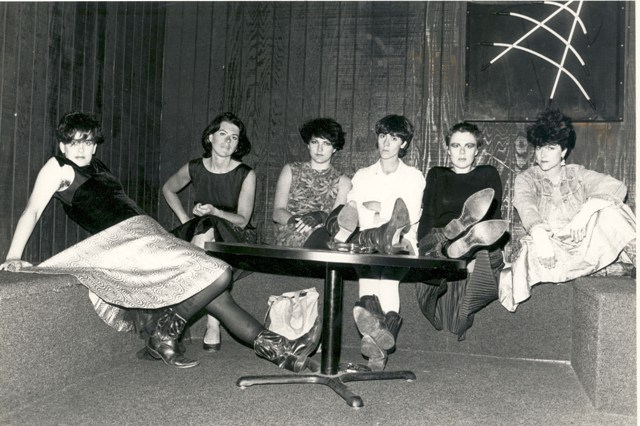 Têtes Noires: Left to right, Jennifer Holt, Polly Alexander, Renée Kayon, Angela Frucci, Cindy Bartell and Camille Gage backstage at First Avenue